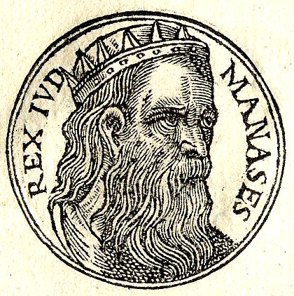 Manasses was a king of the Kingdom of Judah. He was the only son and successor of Hezekiah.